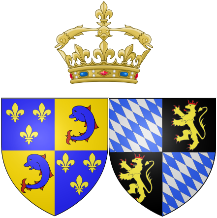 Arms of Marie Anne Victoire of Bavaria as Dauphine of France